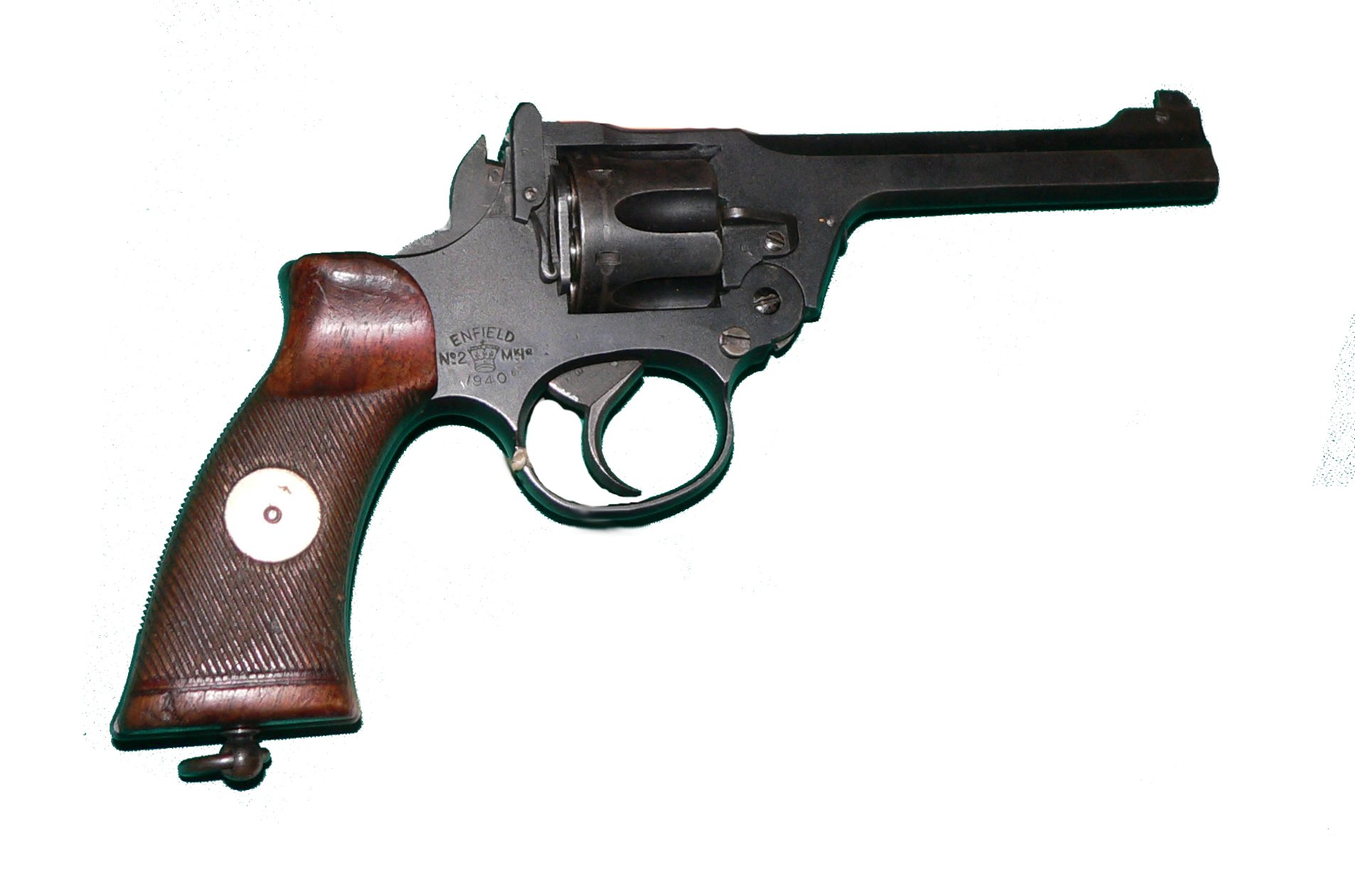 Enfiled no 2